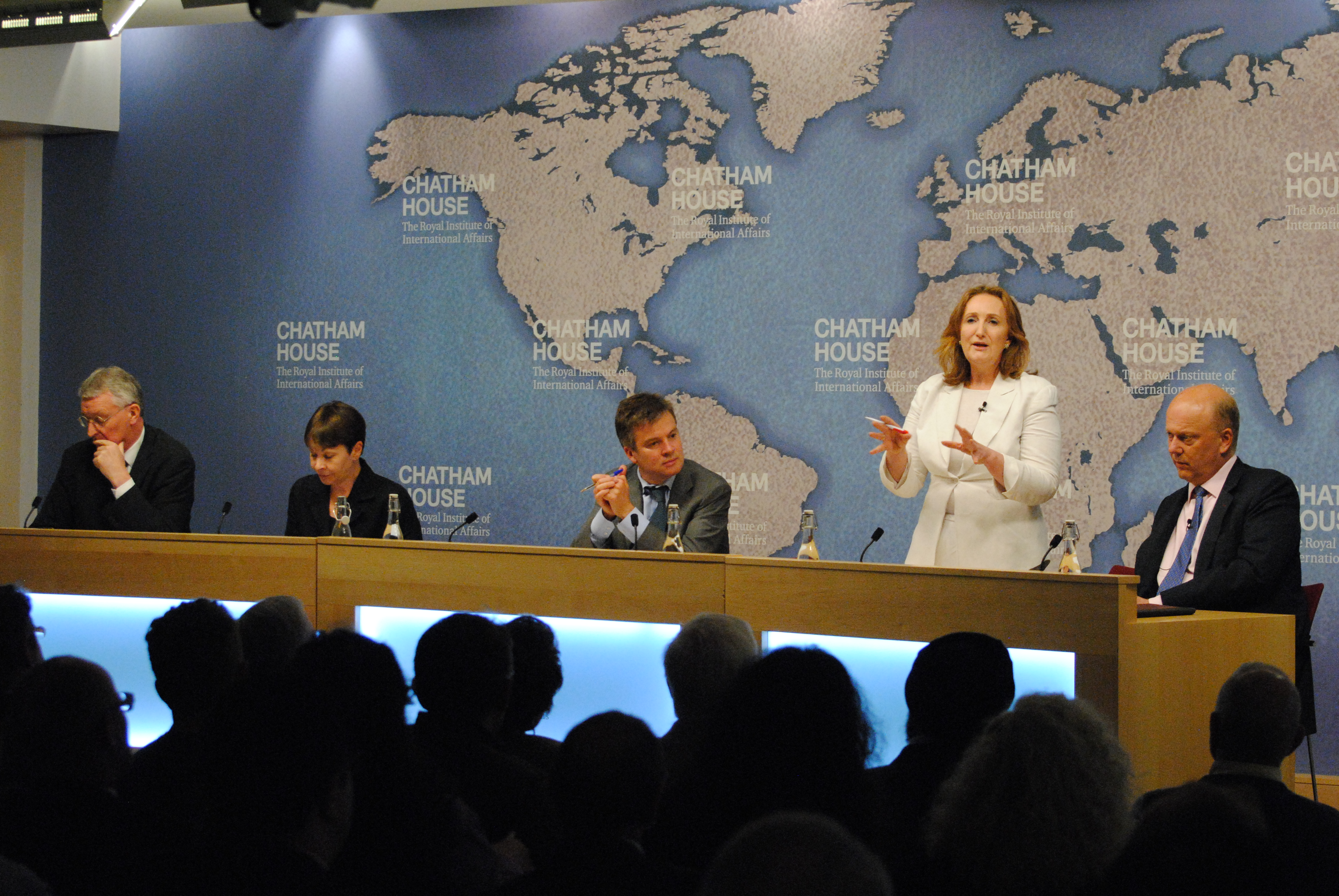 Chatham House Special Debate: "Should Britain Leave the EU?" From left: Hilary Benn and Caroline Lucas (representing the remain side), BBC journalist Nick Watt (chair), Suzanne Evans and Chris Grayling (representing the leave side).